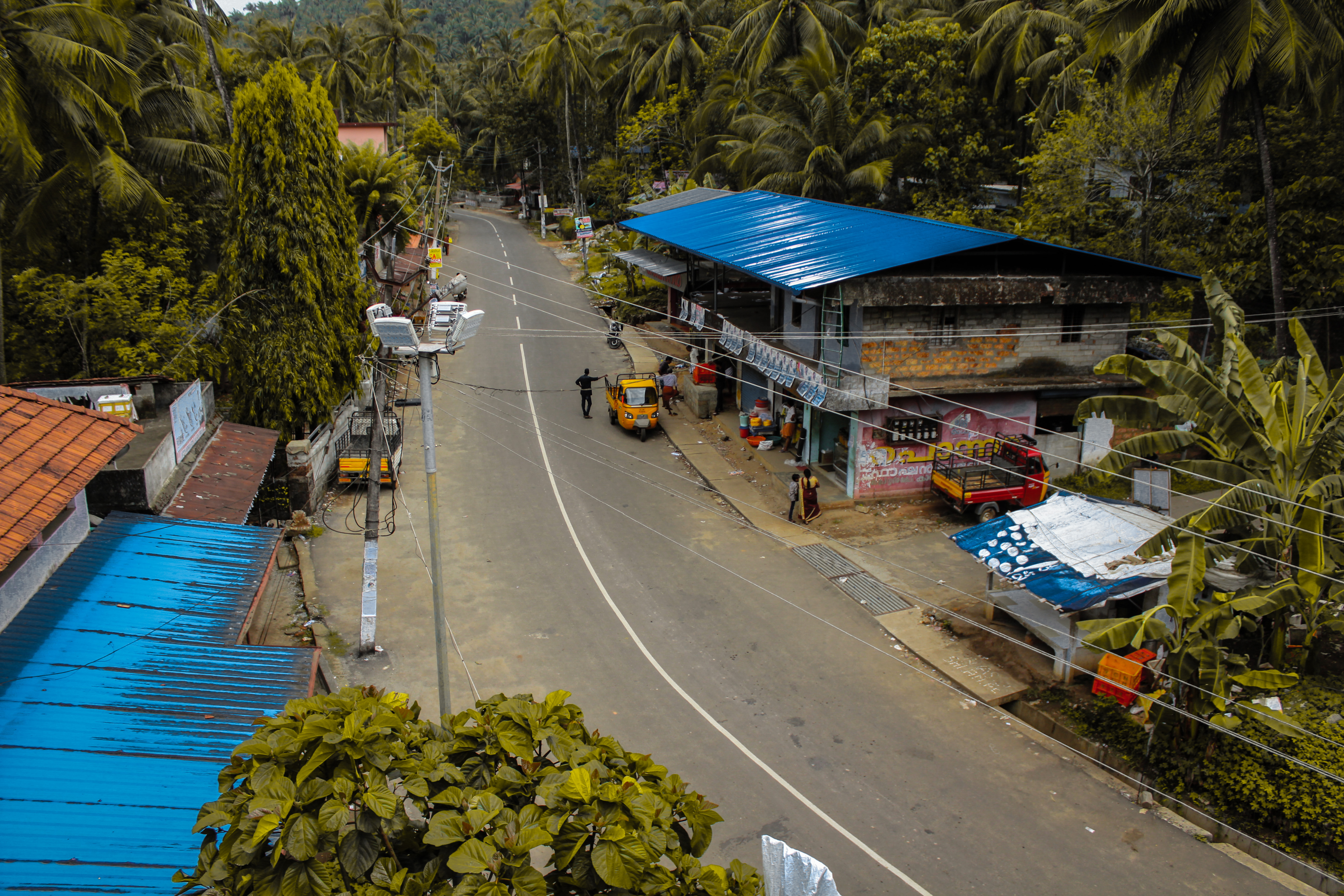 chamal areal view